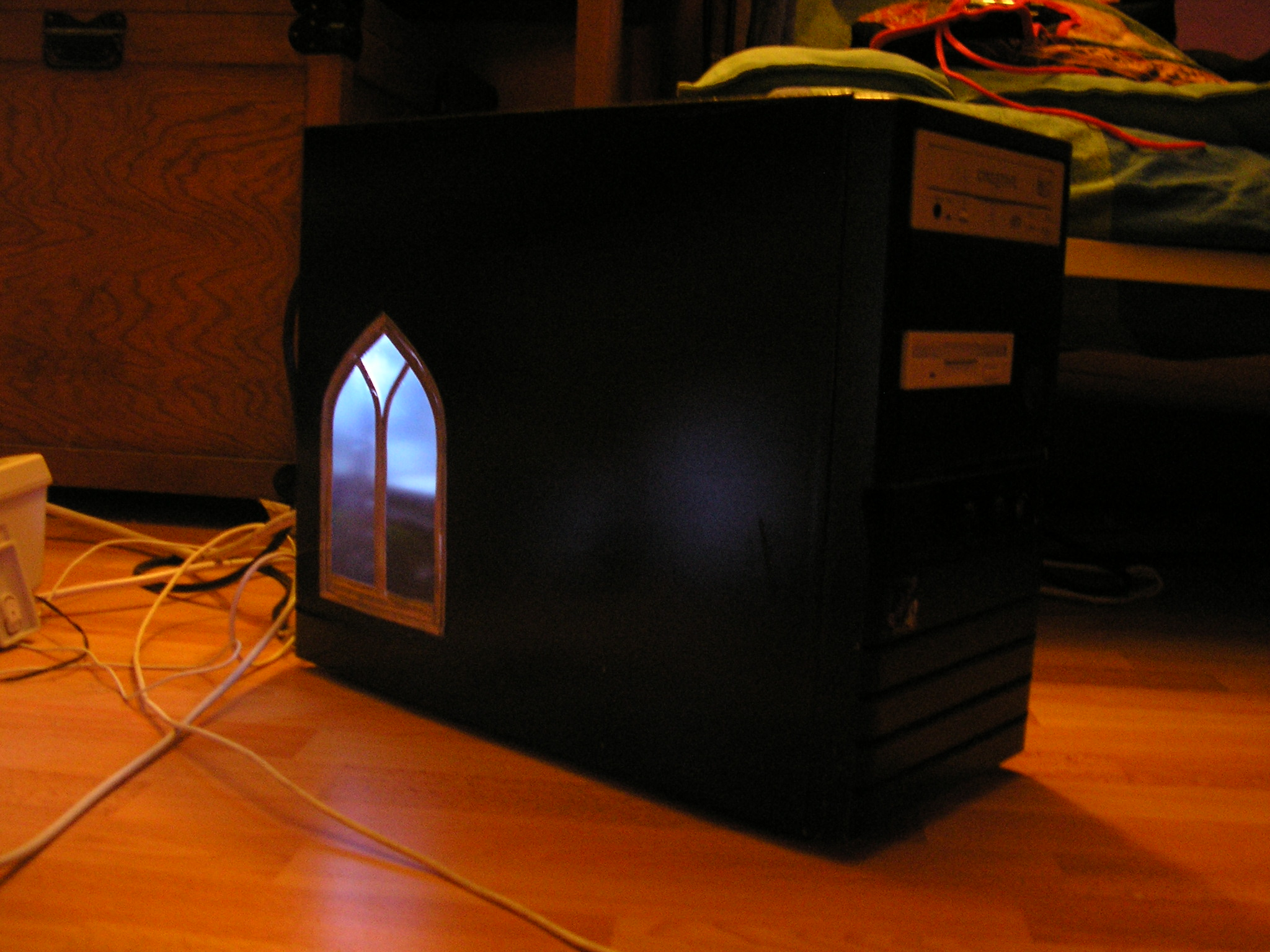 A PC case modded with window and lights.